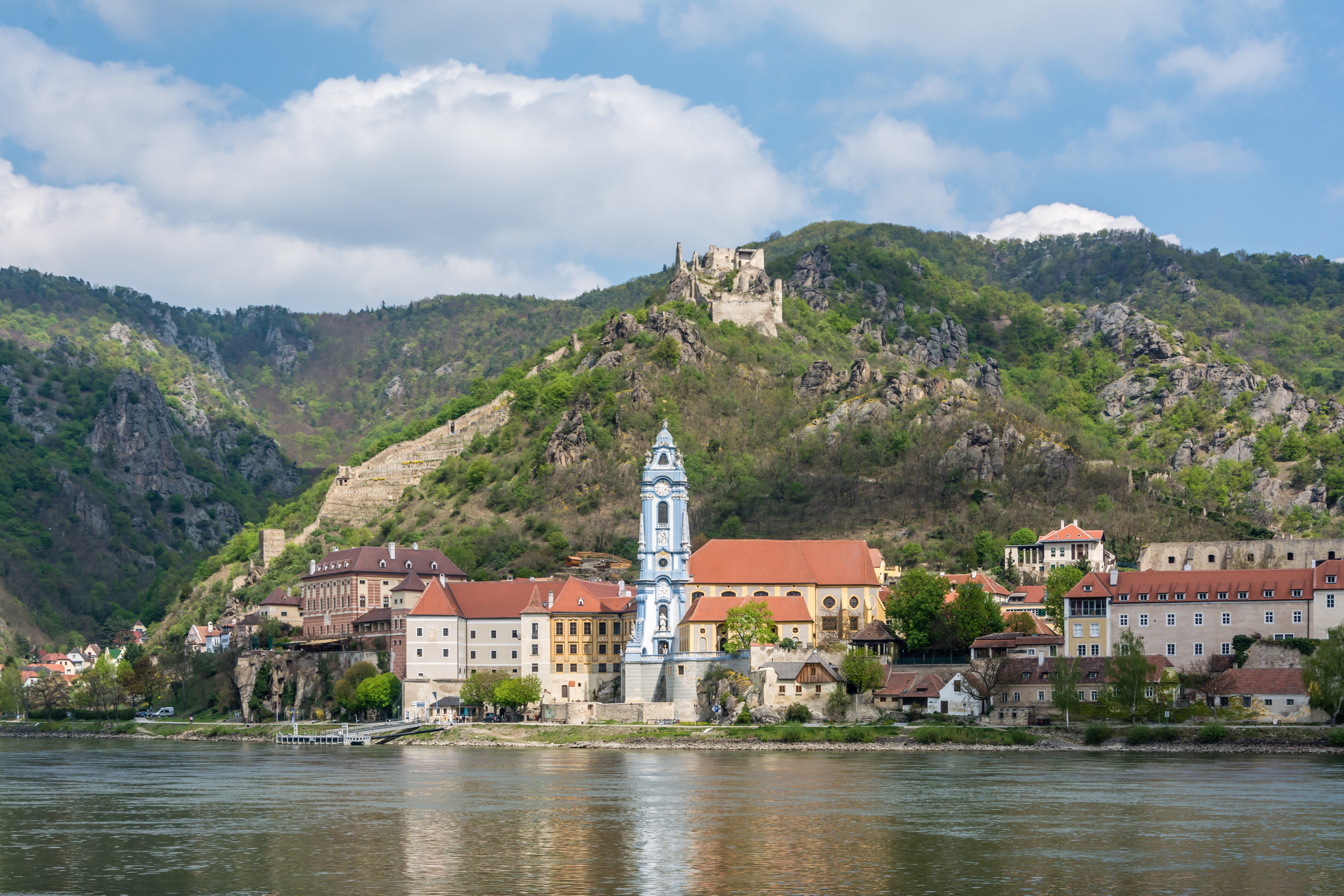 Dürnstein in the Wachau, Lower Austria